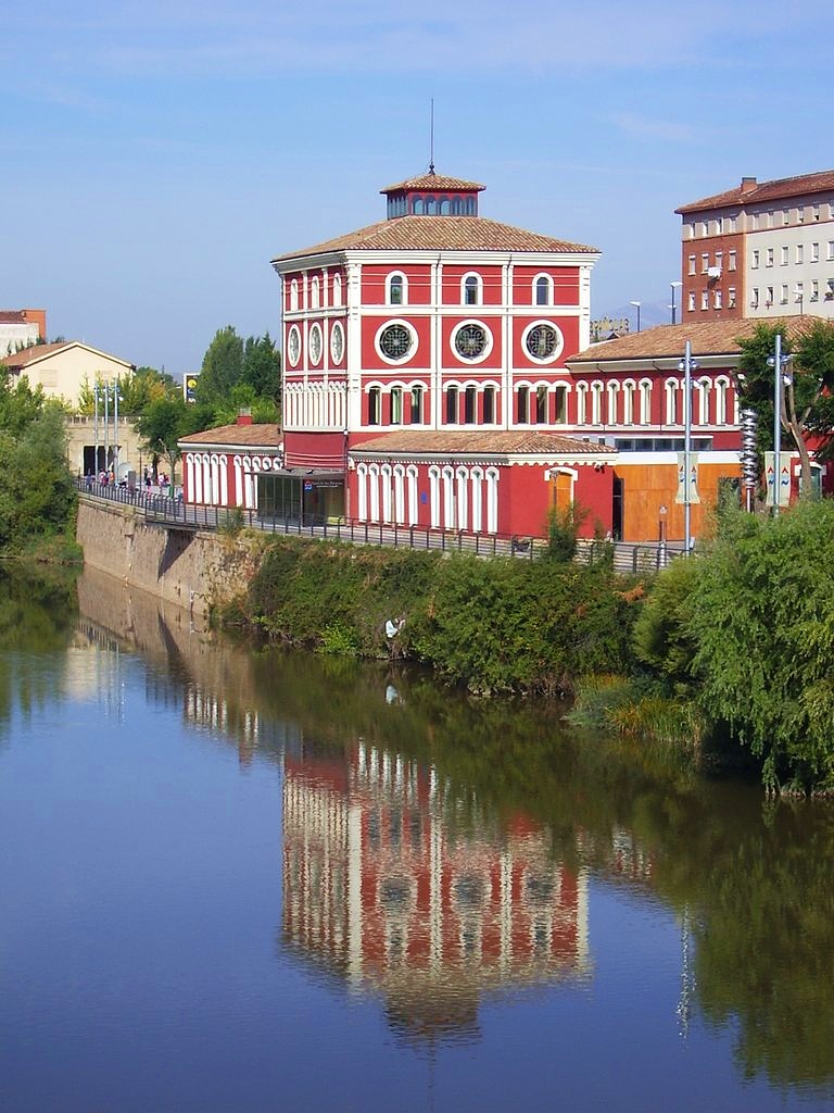 Science Museum (former Slaughterhouse) in Logroño